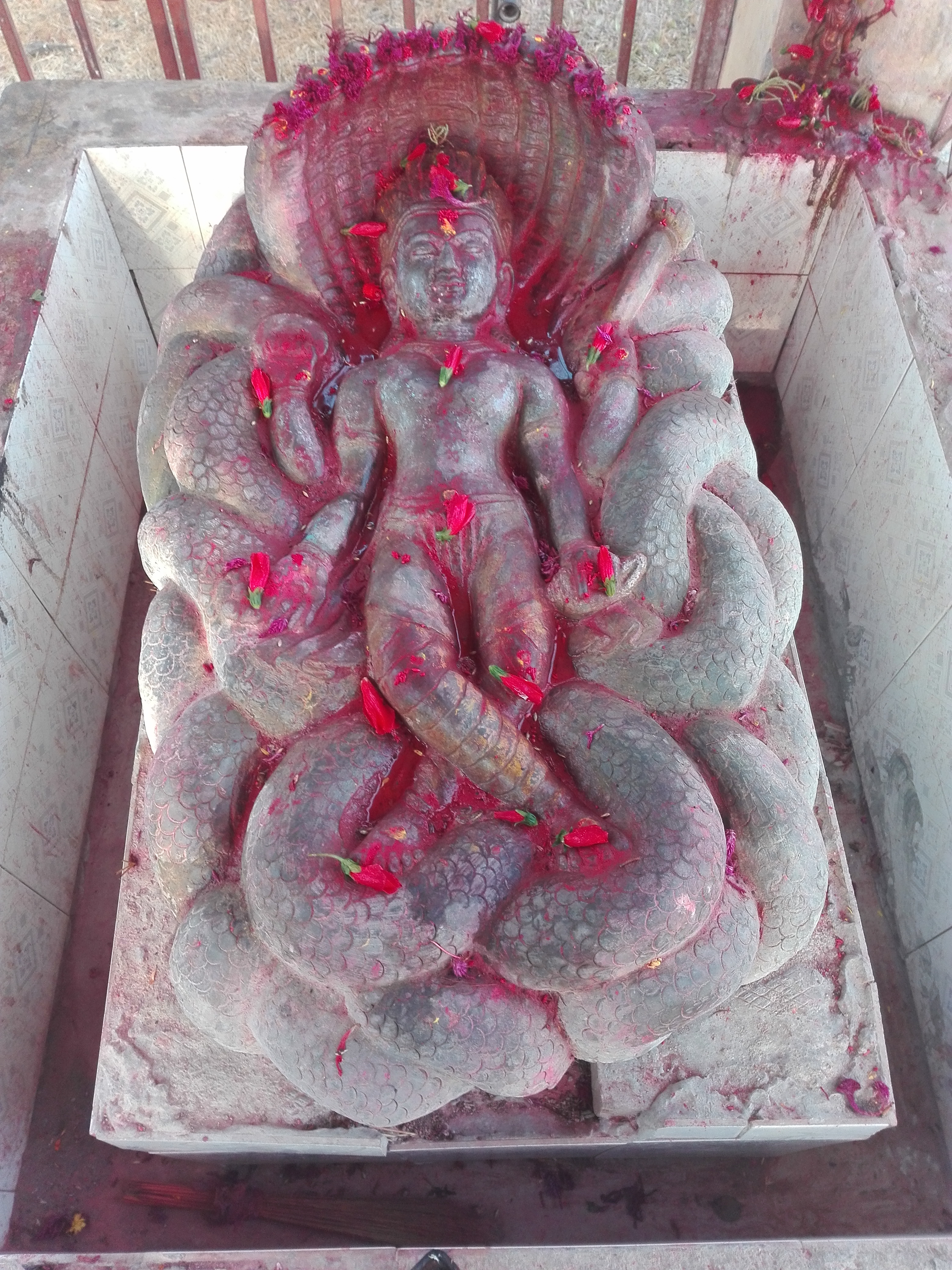 Budhanilkantha at Dhading district of Nepal.